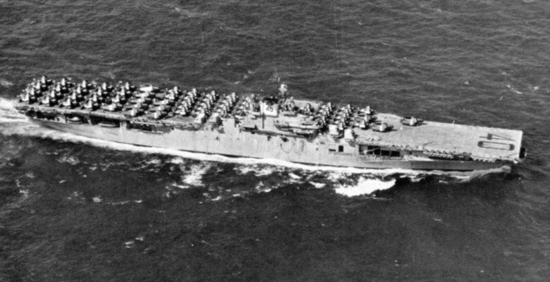 The U.S. Navy aircraft carrier USS Tarawa (CV-40) underway, probably shortly after her commissioning in early 1946. Many planes of Carrier Air Group 4 (CVG-4) are visible on deck. Note that the hull number on deck and funnel is painted in black, and not in white as it was/is common lateron.